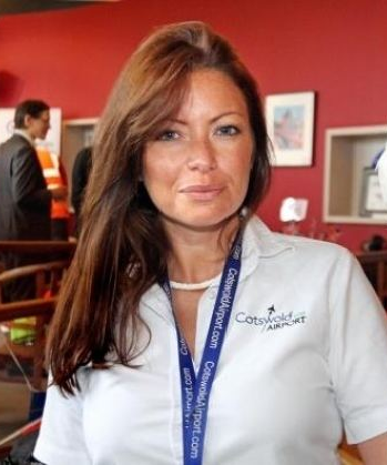 Suzannah Harvey